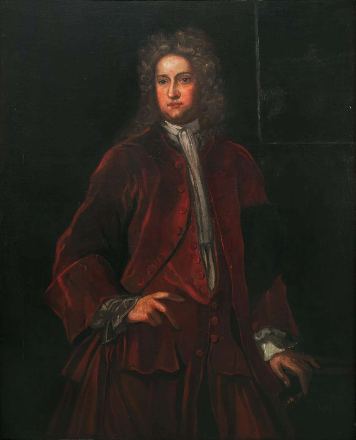 Portrait of Sir William Berkeley, Governor of Virginia. Image ca. 1917 of a painting at Library of Virginia, after an original painting circa 1663.